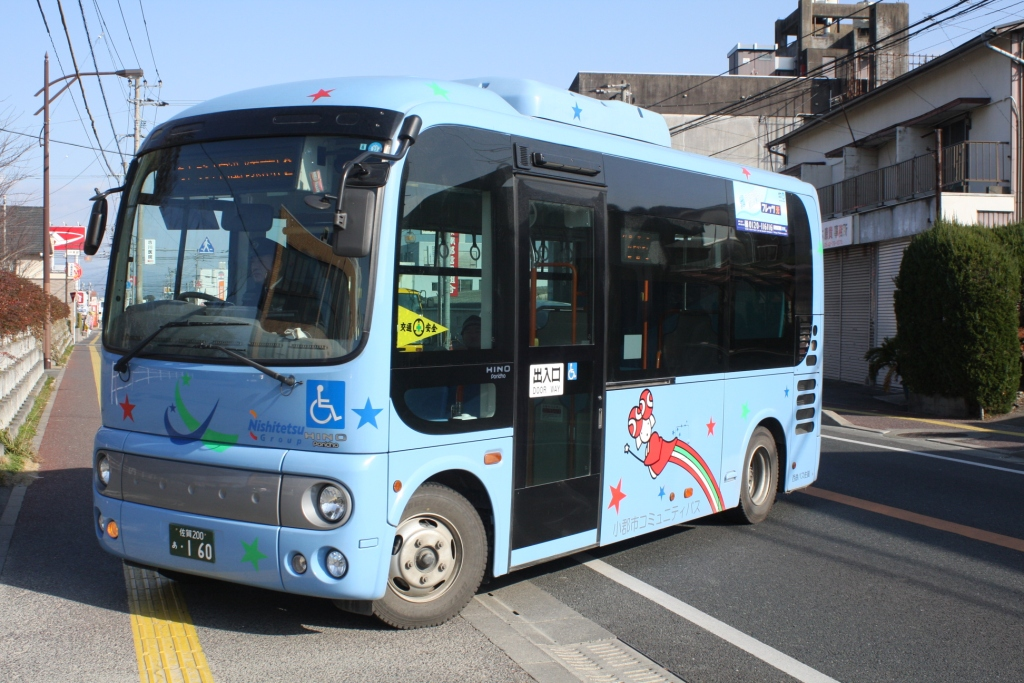 Hino Poncho for Ogori City Community Bus operated by Nishitetsu Bus Saga